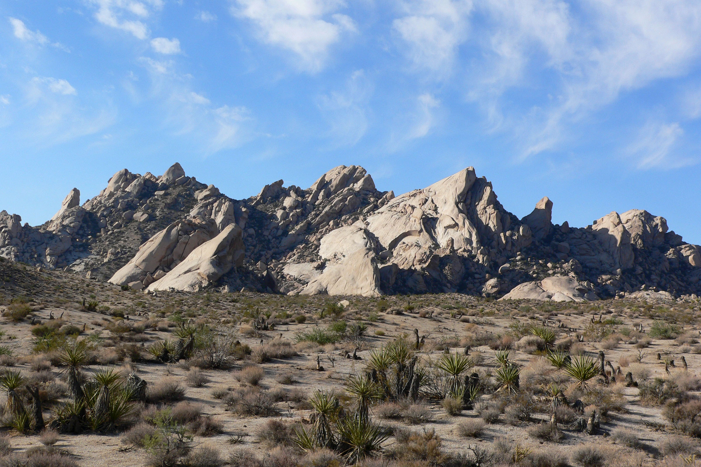 Grapevine Canyon granite, Newberry Mountains (Nevada), southern Nevada